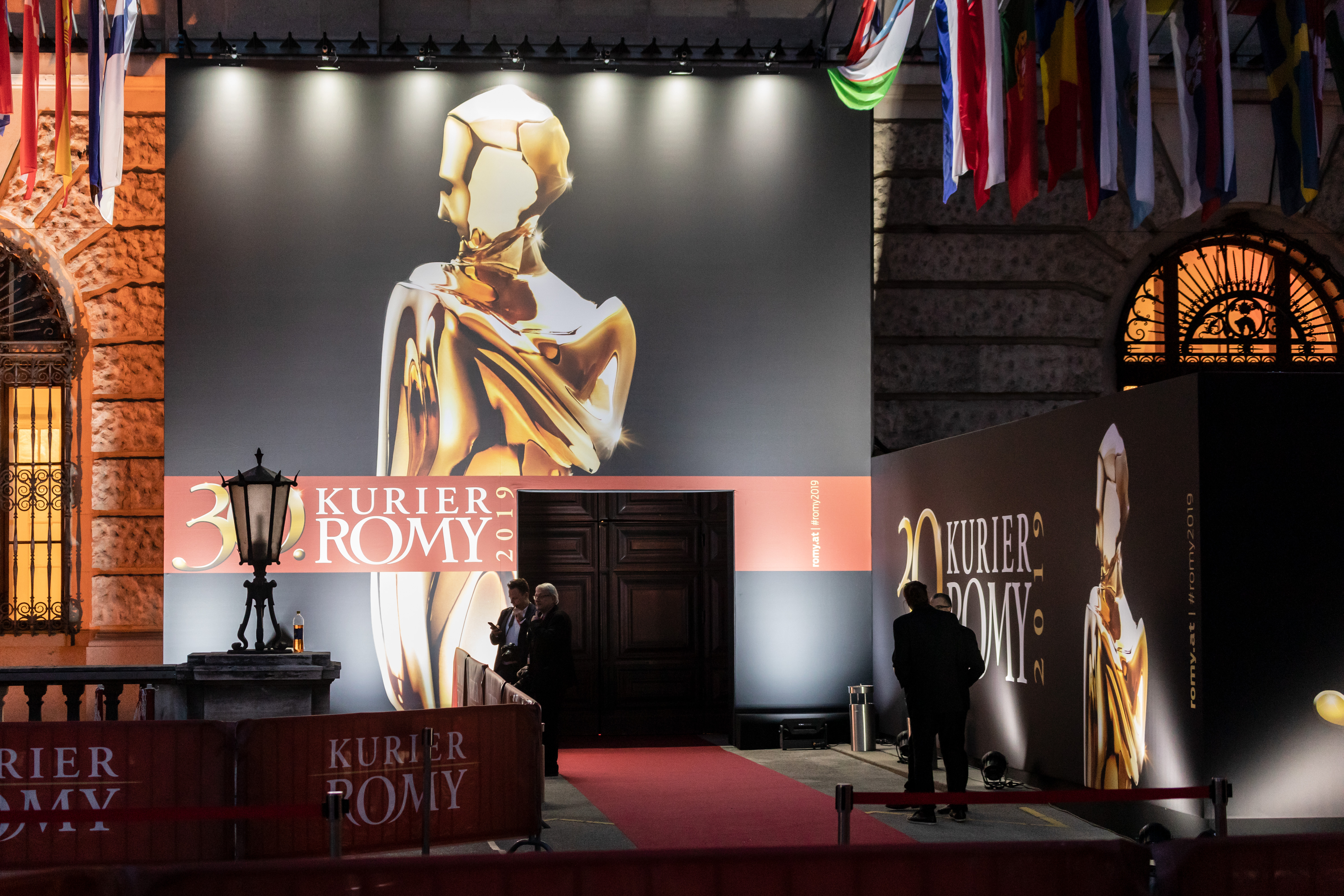 Romy TV awards 2019 at Hofburg Palace in Vienna, Austria.